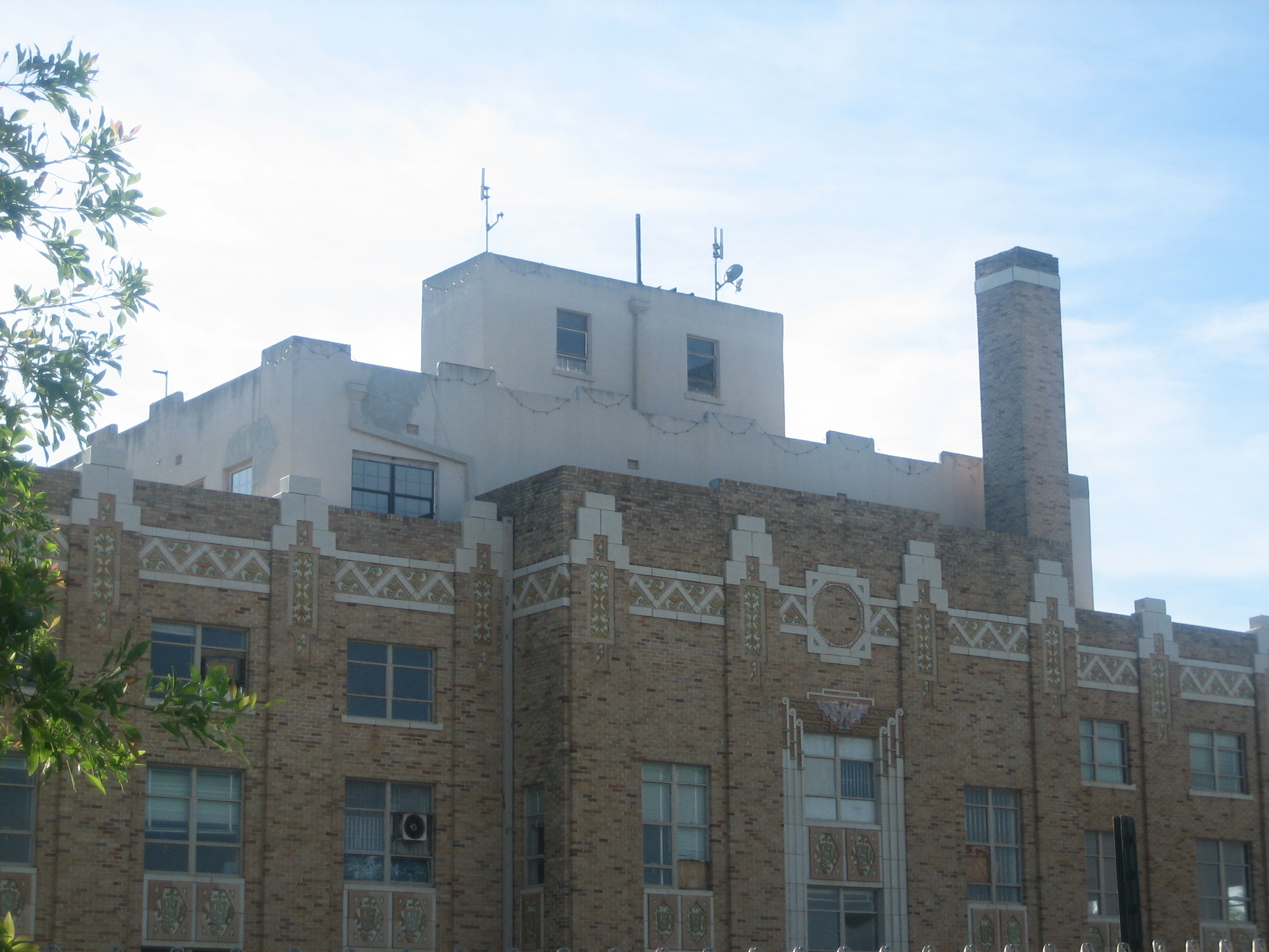 The La Salle County Courthouse in Cotulla, Texas, United States. I took photo on May 19, 2009.Billy Hathorn (talk) 16:14, 30 May 2009 (UTC)